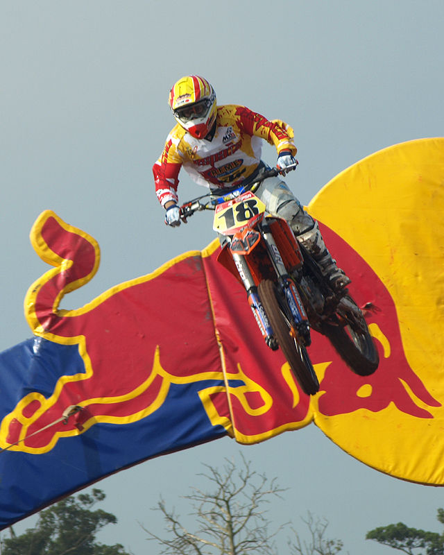 Alvaro Lozano (Valencian Country -Spain-, KTM) at Red Bull FIM Motocross of Nations 2008, in Donington Park (England)